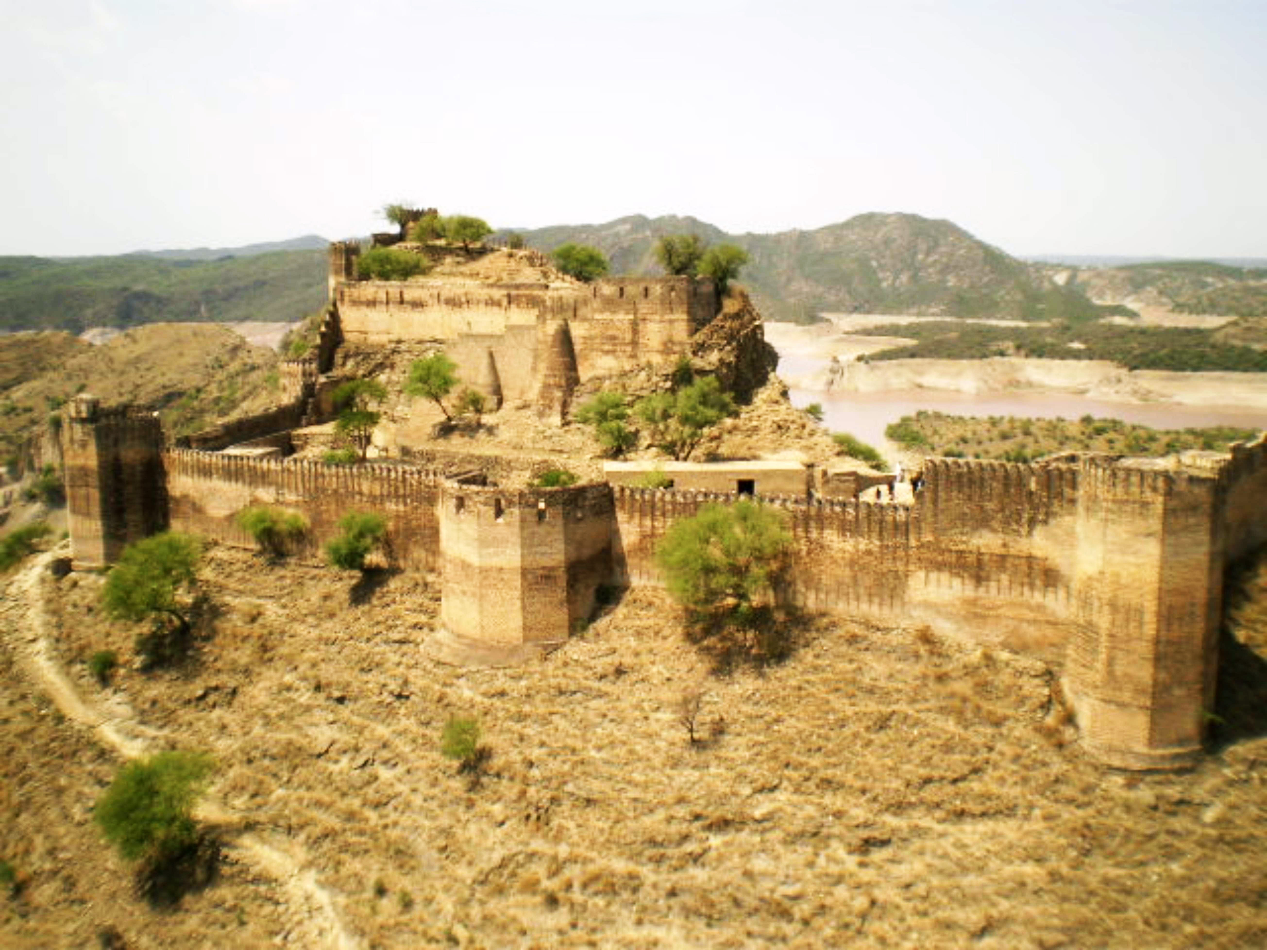 Ramkot Fort This is a photo of a monument in Pakistan identified as the AJK-13